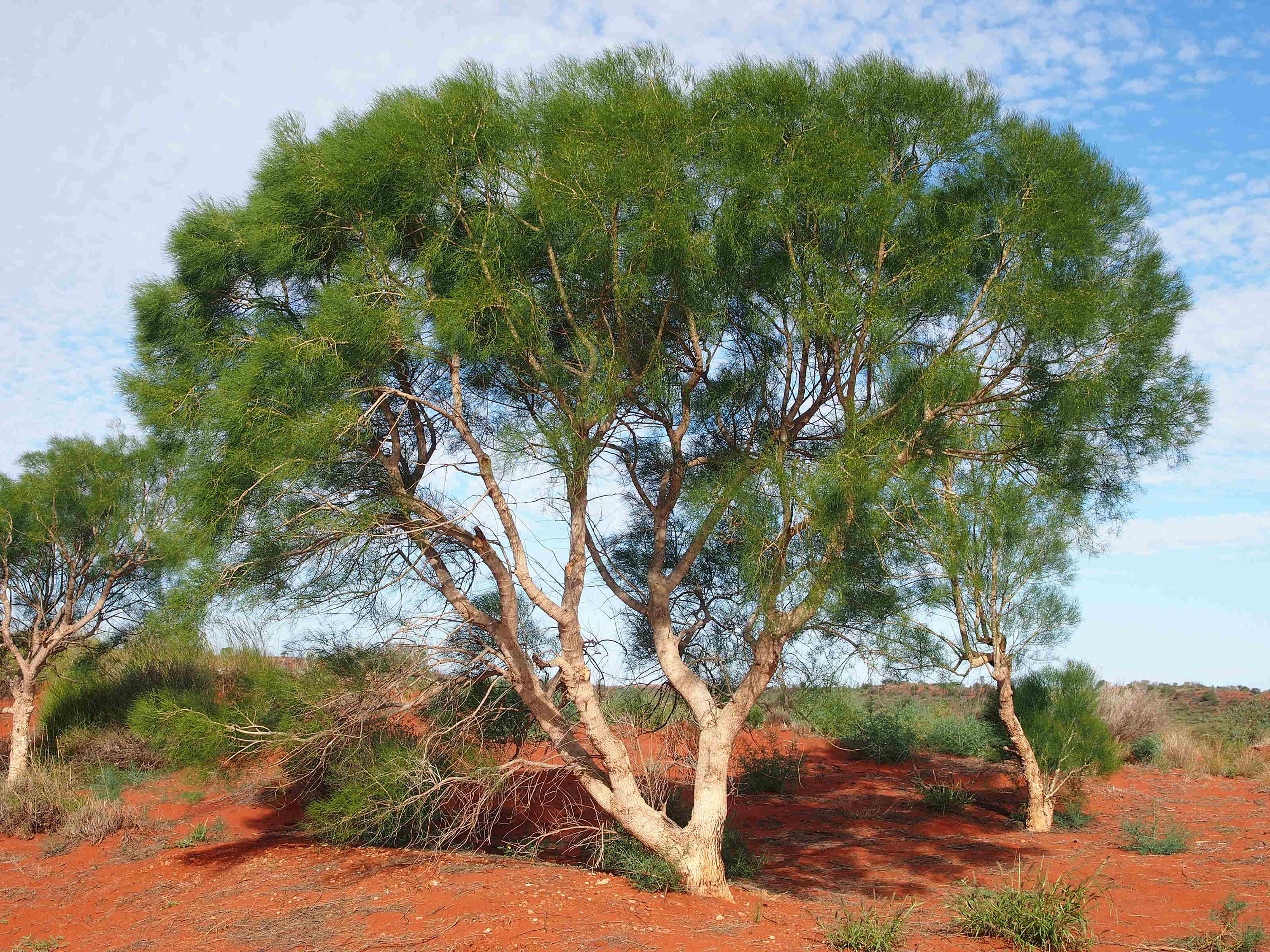 Gyrostemon ramulosis habit